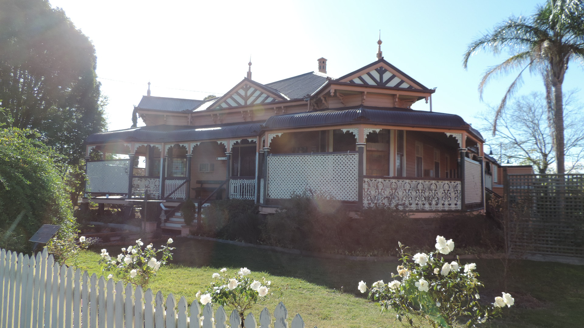 Aberfoyle, 35 Wood Street, Warwick, 2015